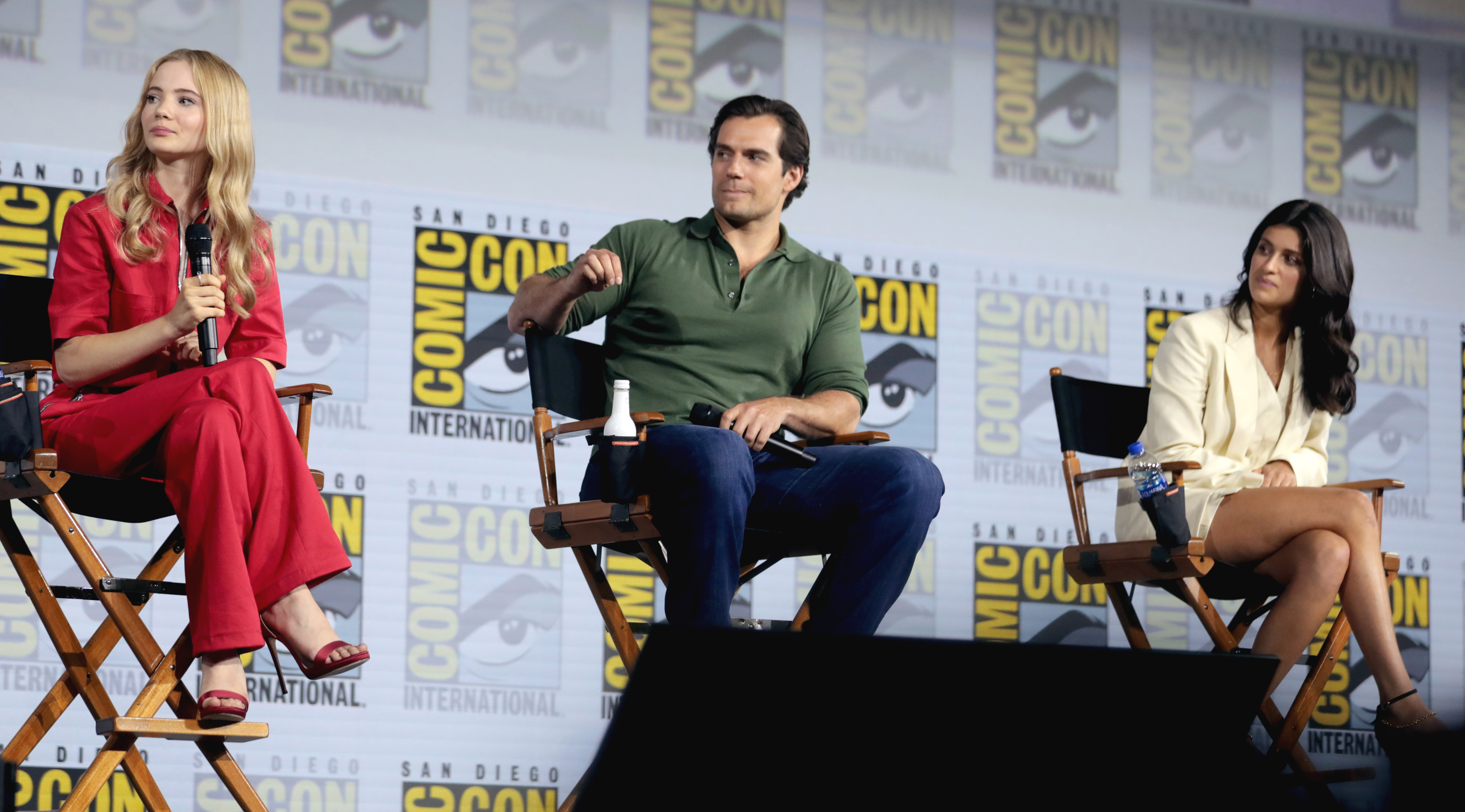 Freya Allan, Henry Cavill and Anya Chalotra speaking at the 2019 San Diego Comic Con International, for "The Witcher", at the San Diego Convention Center in San Diego, California.